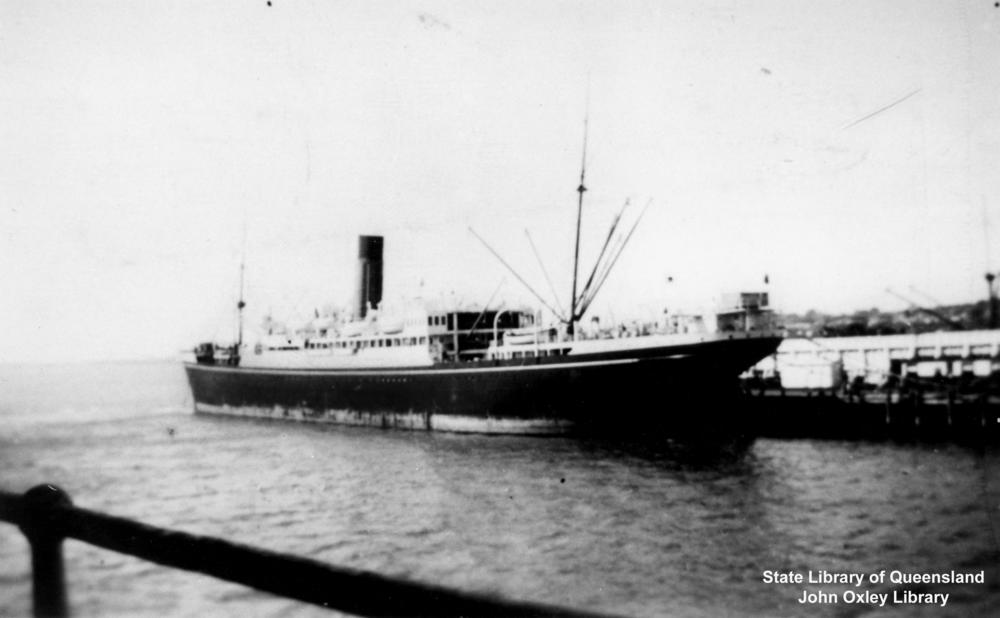 Akaroa (ship) The Akaroa, photographed at New Plymouth, New Zealand, in 1934. 14,947 gross tons. (Description supplied with photograph).